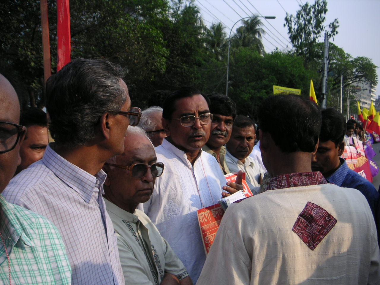 Rashid Khan Menon, leader of the Workers Party of Bangladesh, at a united opposition rally in Dhaka. Photo: Soman